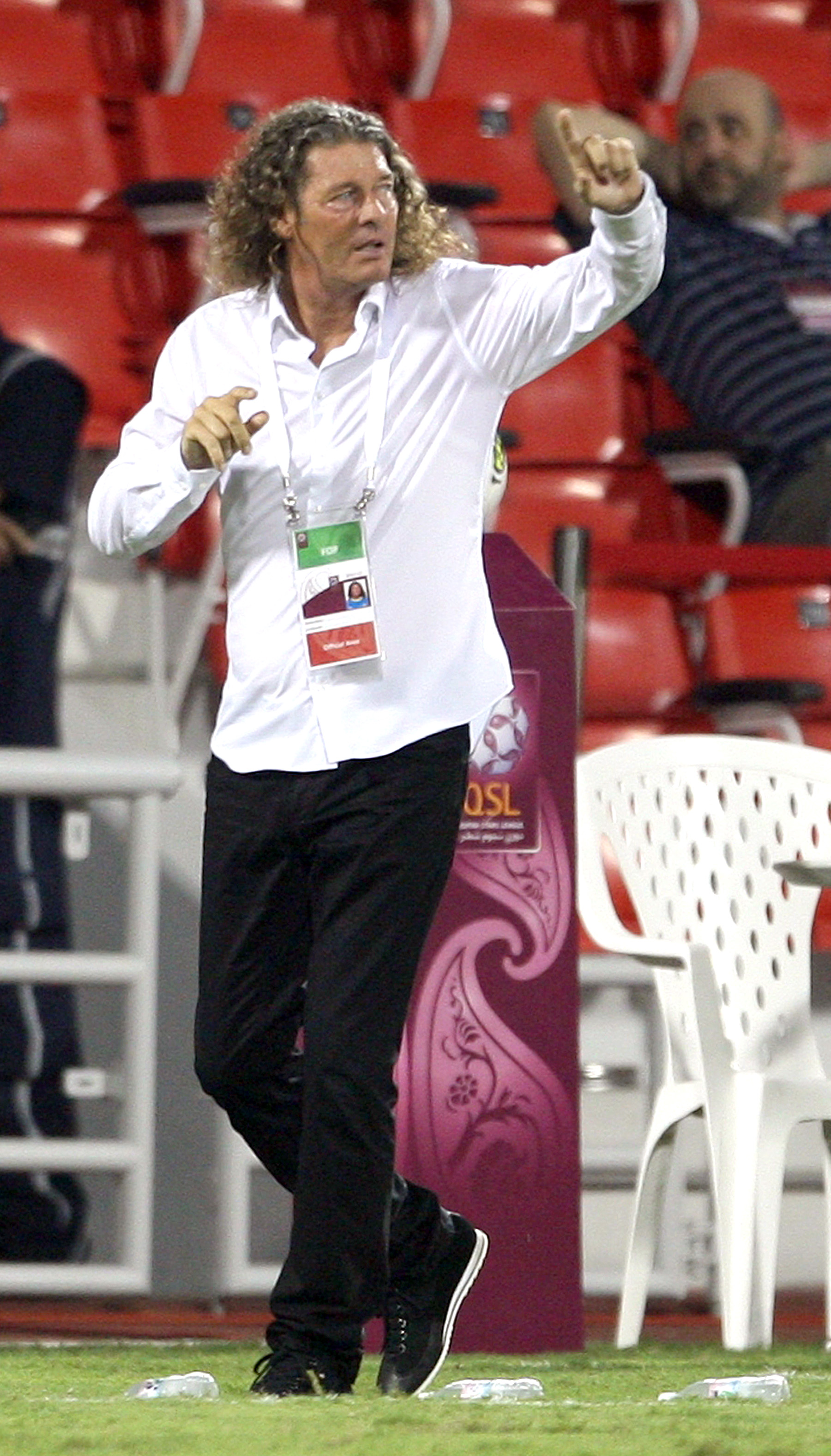 Al Gharafa coach Bruno Metsu instructs his players.